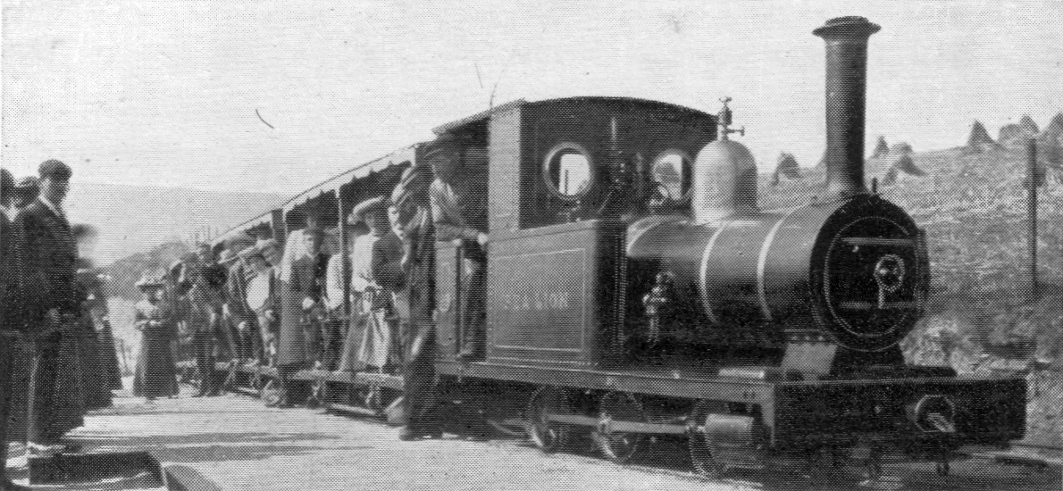 'Sea Lion', Groudle Glen Railway (All About Railways, Hartnell).jpg